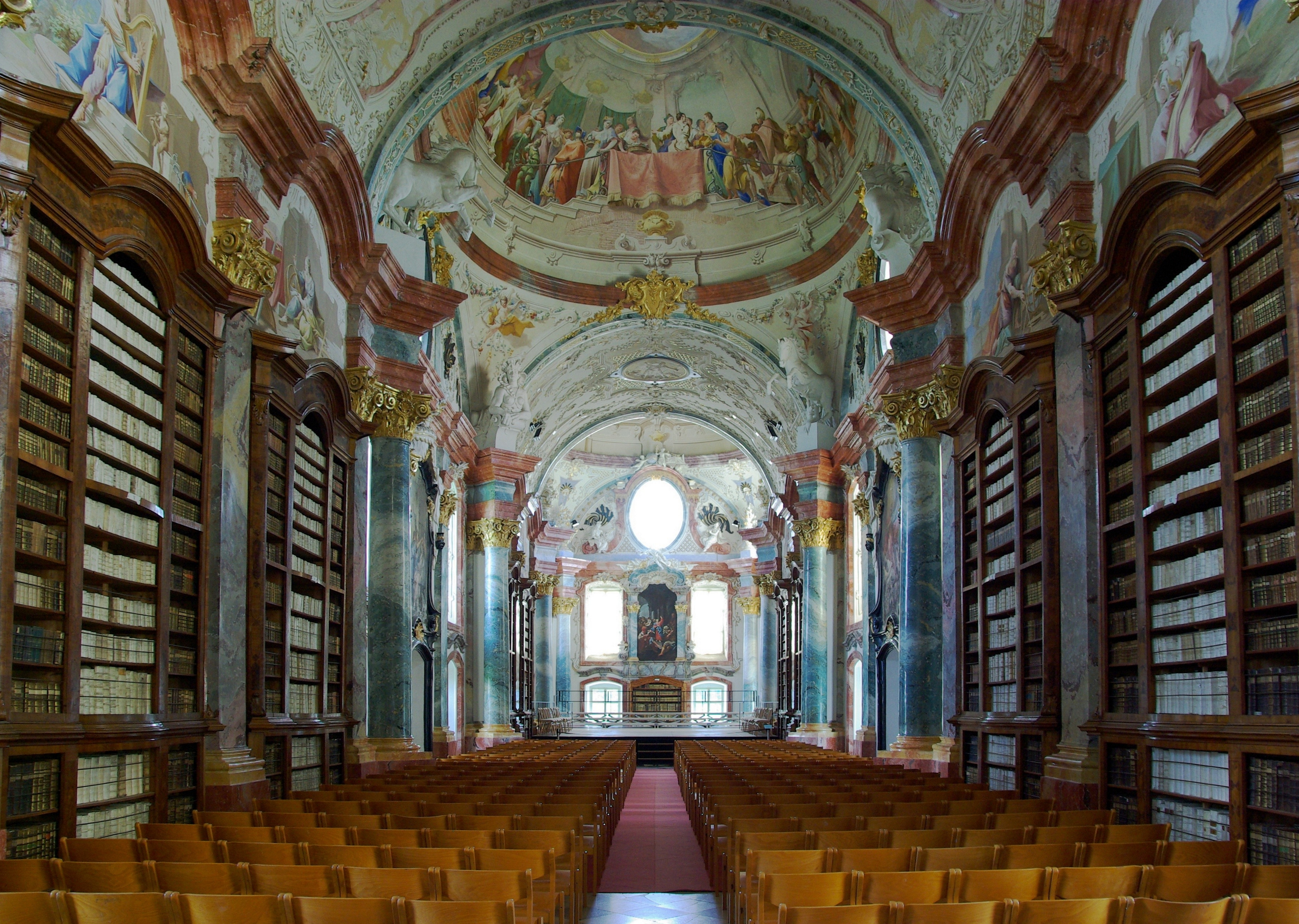 Altenburg Abbey, a Benedictine monastery in Lower Austria.